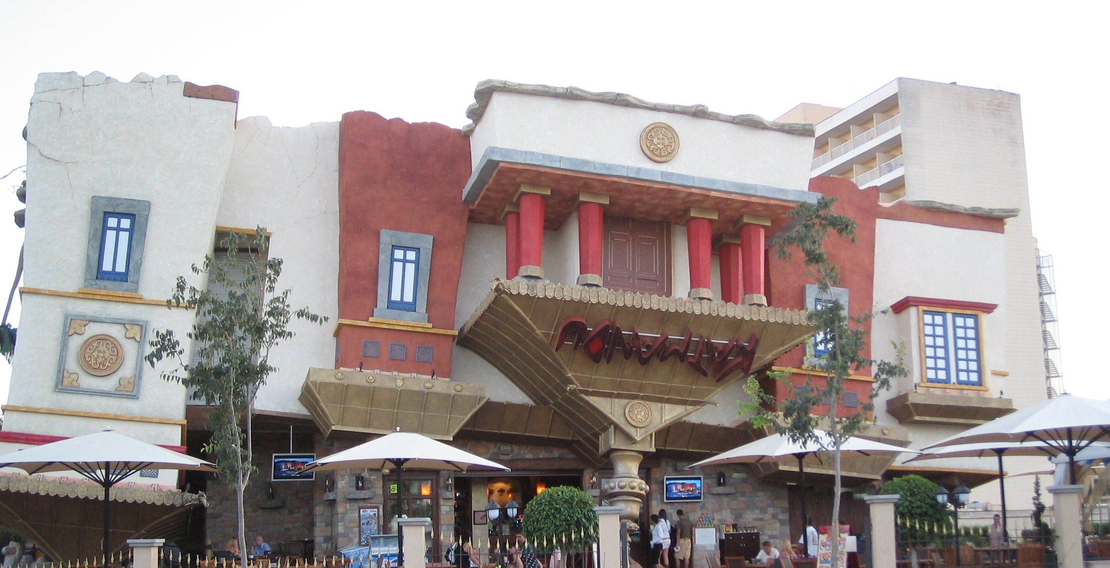 A museum called The house of katmandu, builded upside down in the spanish resort Magalluf in Mallorca.